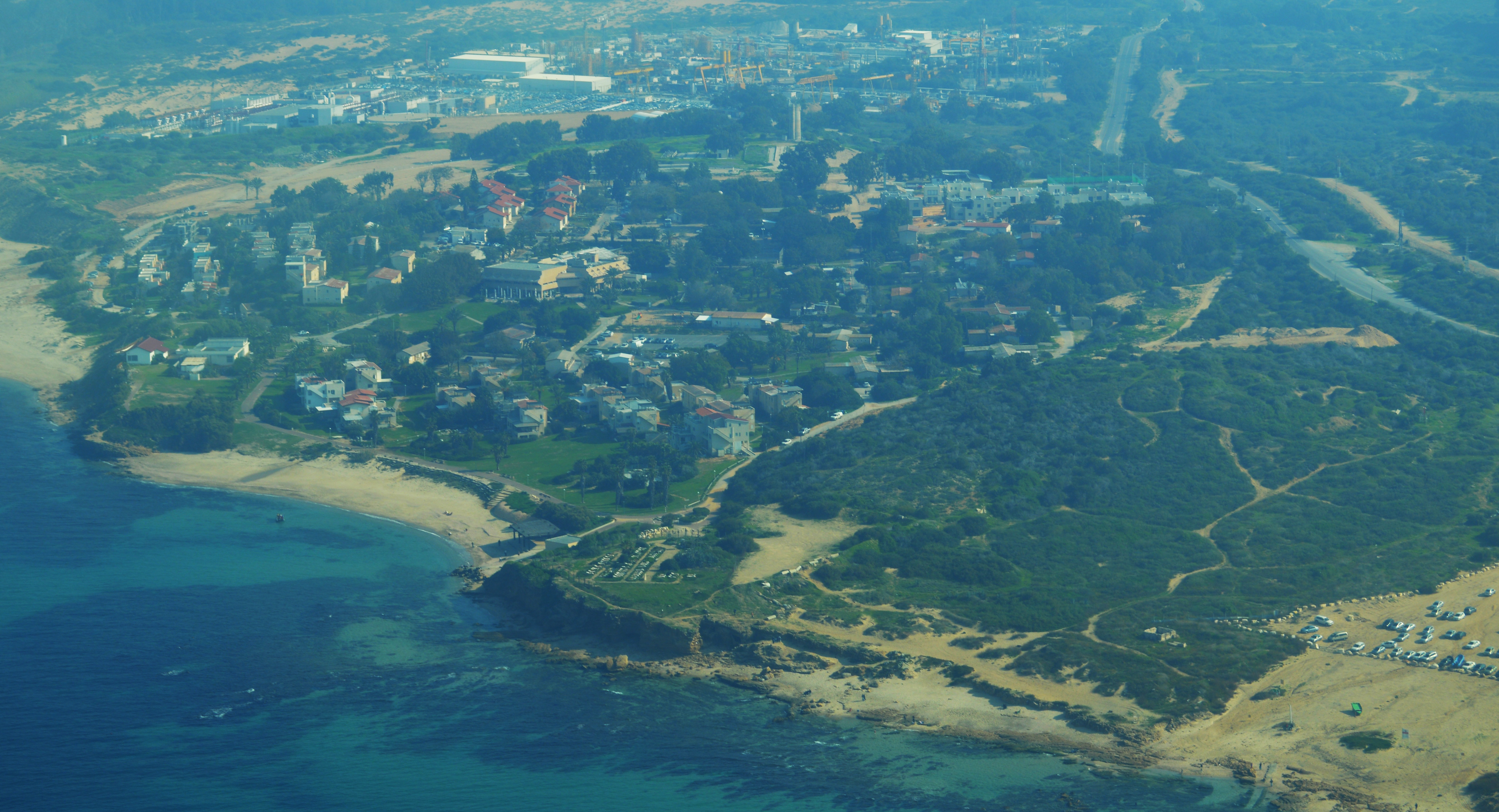 Kibbutz Palmachim Aerial View